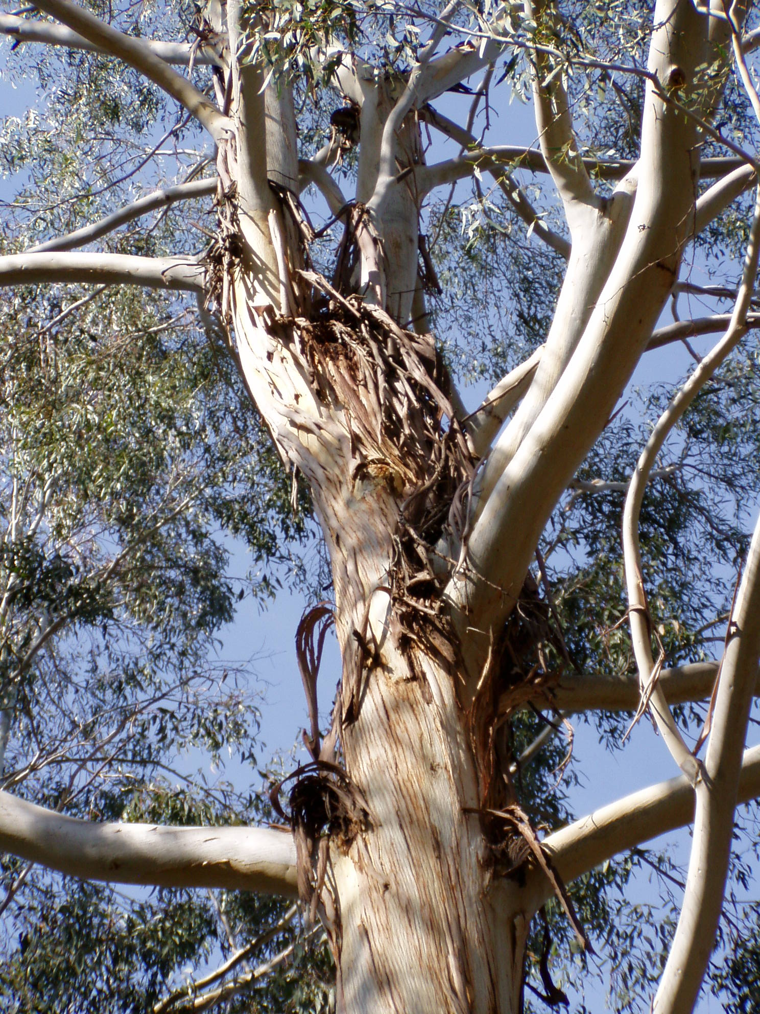 Description: Camden White Gum (Eucalyptus benthamii) Location: Australian National Botanic Gardens, Canberra, Australian Capital Territory, Australia Date: 2005-09-21 Source: picture taken by Danielle Langlois Licence: Released under GFDL and Creative Commons licenses by the photographer